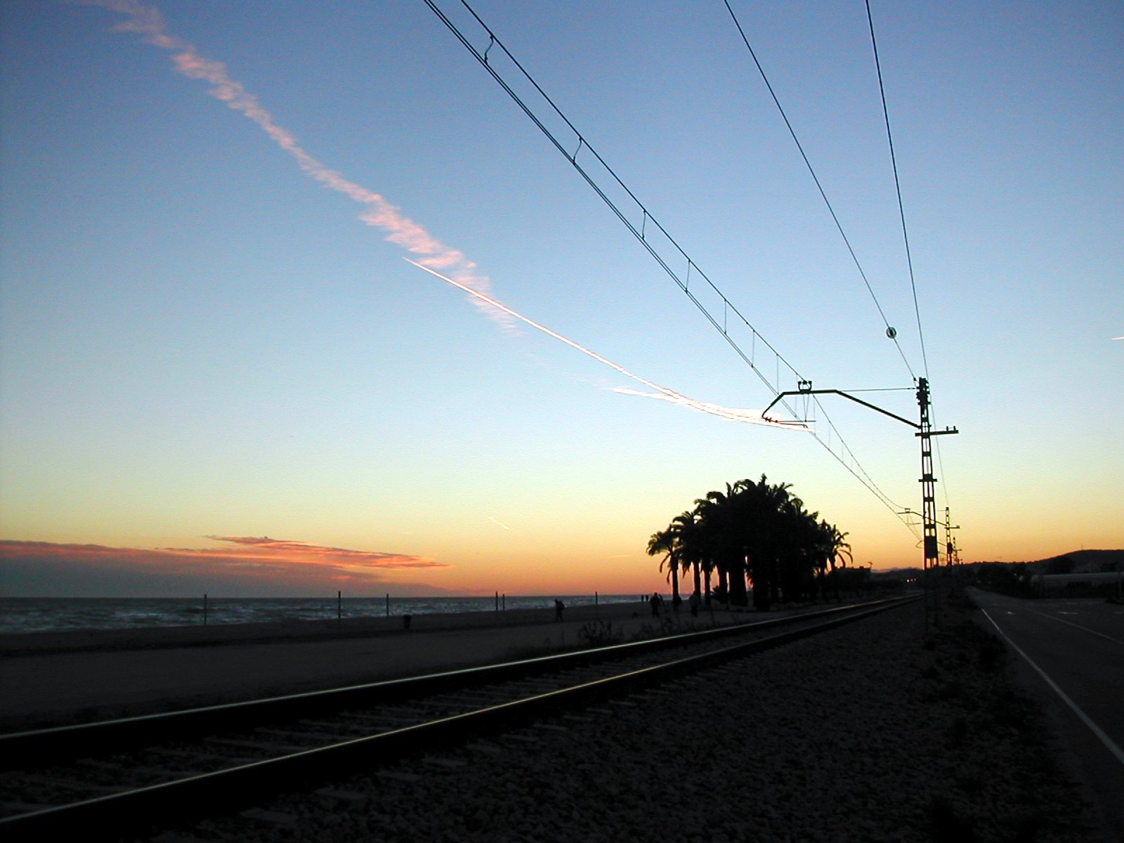 Author: David Gaya Place: Spain, Catalonia, Maresme, Santa Susanna. Date: 5 december 2005